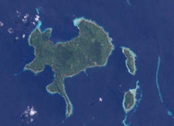 This image (Landsat7) shows in the left the big Nuakata Island and on the right side the islands Boirama (North-East) and Diawari (South-East). All three islands belong to the Milne Bay Province of Papua New Guinea.